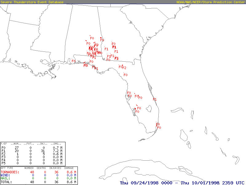 Tracks of all tornadoes spawned by Hurricane Georges. Dates of the event: September 25 - October 1, 1998